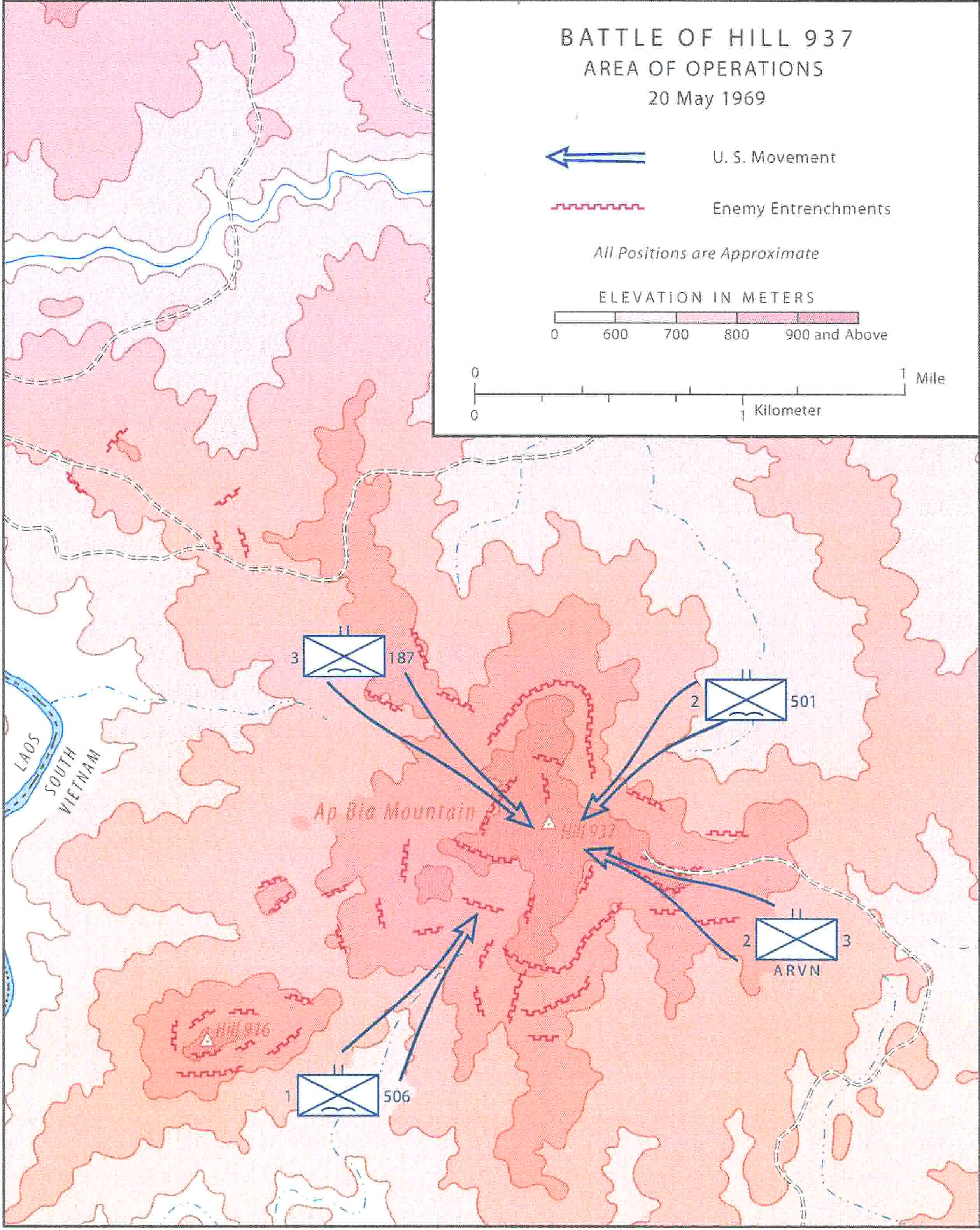 Battle of Hamburger Hill, 20 May 1969